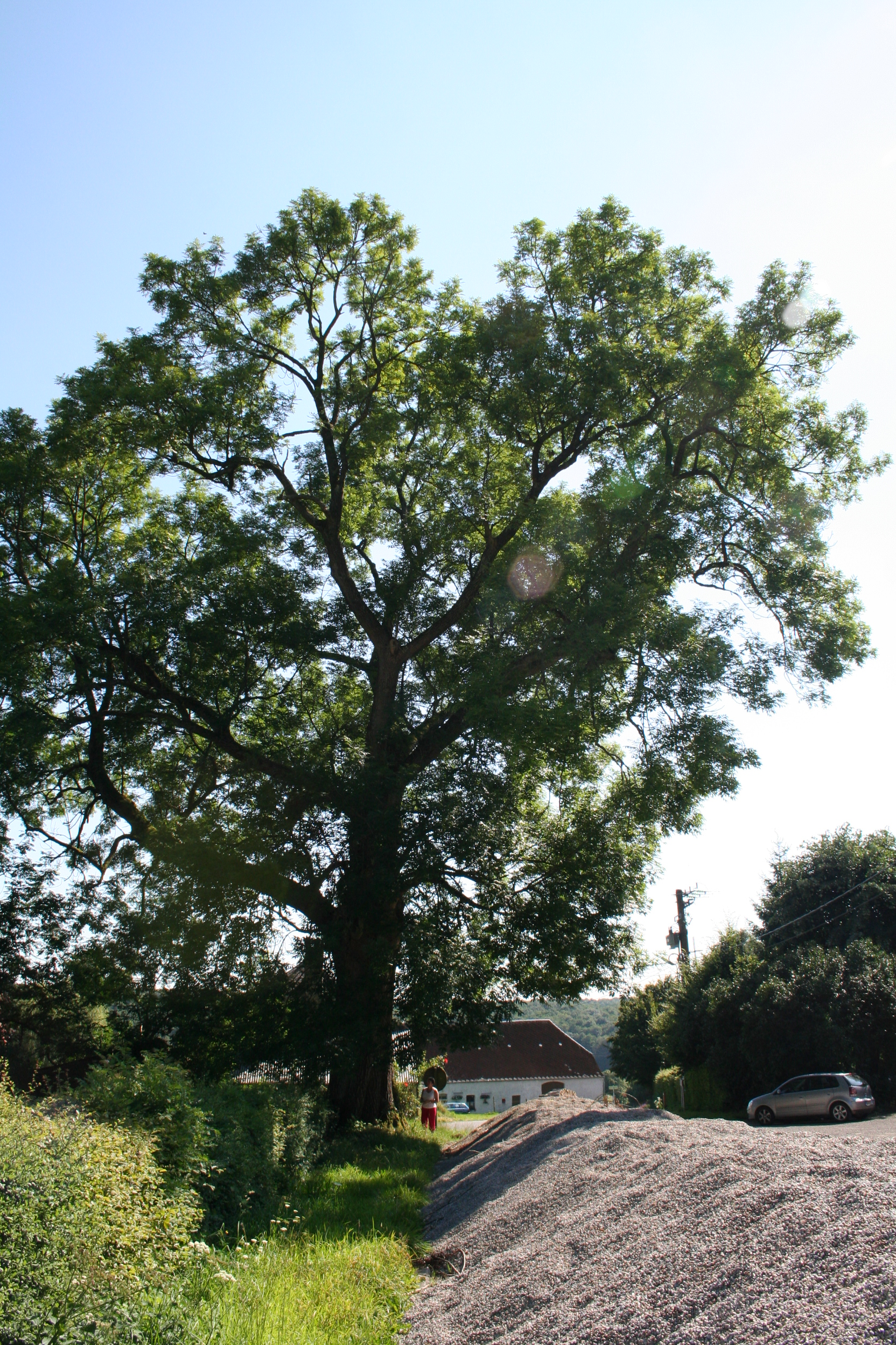 Ash tree.